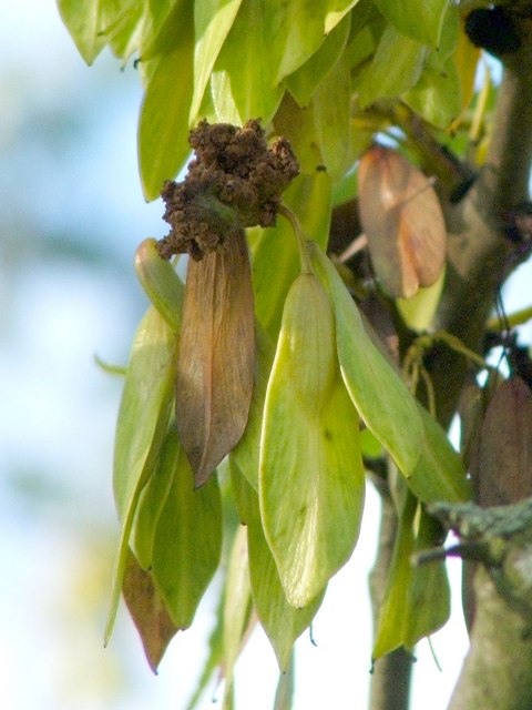 A gall on ash keys The brown mass shown here is a centimetre or so across, and is a plant gall, produced by the mite species Aceria fraxinivorus. It starts off green, but later darkens (as has happened here). This variety of ash gall is widespread and common. It is growing on a bunch of "ash keys" (the name given to the fruit of the ash tree; the fruit is of a type known as a samara: papery and wing-like to aid dispersal by wind). The ash tree on which this gall occurred was standing next to a footpath that ascends to Kilpatrick Braes.